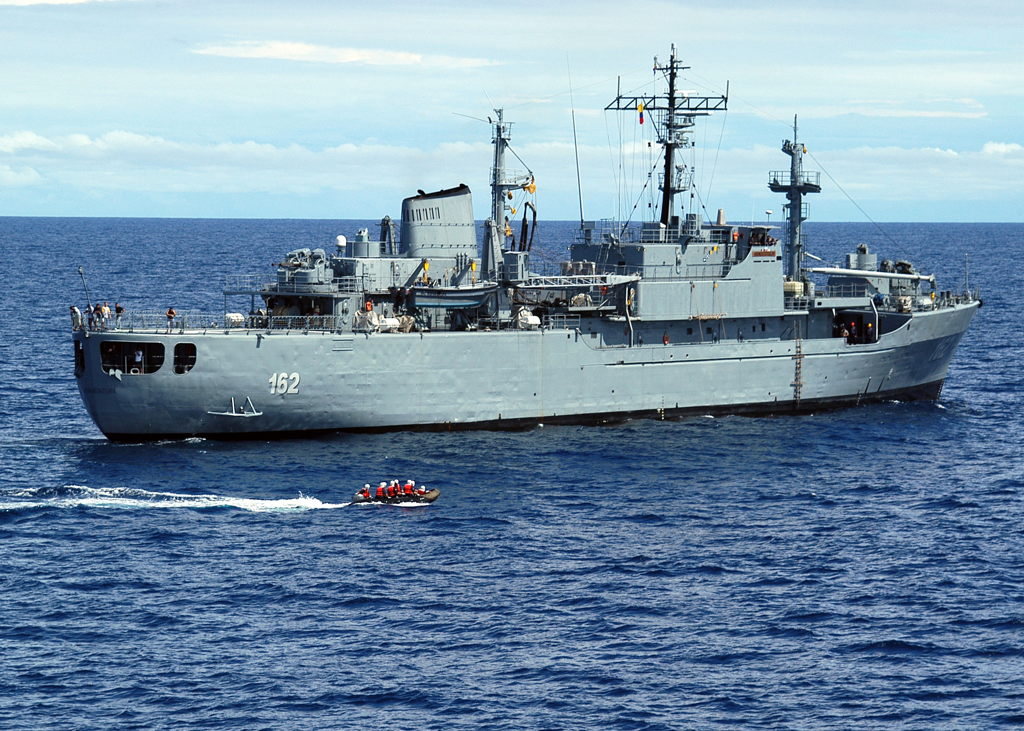 PACIFIC OCEAN (Sept. 1, 2007) - A special forces team comprised of Peruvian sailors approaches Columbian supply tender ARC Buenaventura (BL 162) in a rigid hull inflatable boat while engaging in visit, board, search and seizure exercises during PANAMAX 2007. PANAMAX 2007 is a joint and multinational training exercise tailored to the defense of the Panama Canal, involving civil and military forces from the region. U.S. Navy photo by Mass Communication Specialist 3rd Class Damien Horvath (RELEASED)